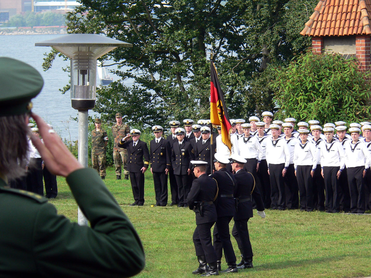 As the regimental colours ("Truppenfahne") are passing the formation, a high ranking police officer and a navy officer salute and the cadets of Crew VII/06 of the German navy turn their heads towards the colours.